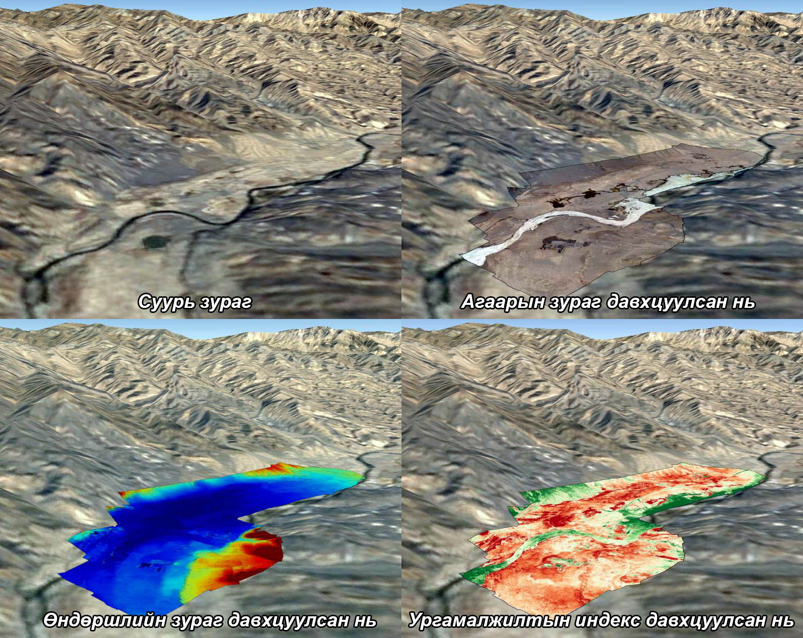 Монгол: Prepared by Numan-Altai LLC